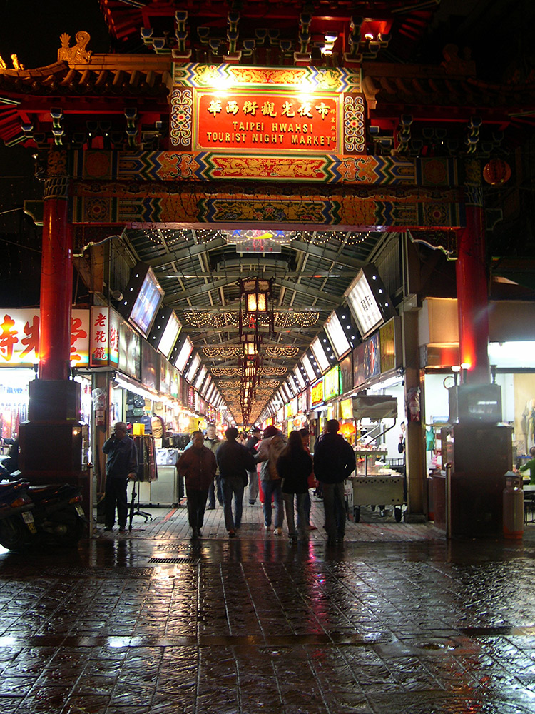 Hwasi Night Market Gate in Taipei